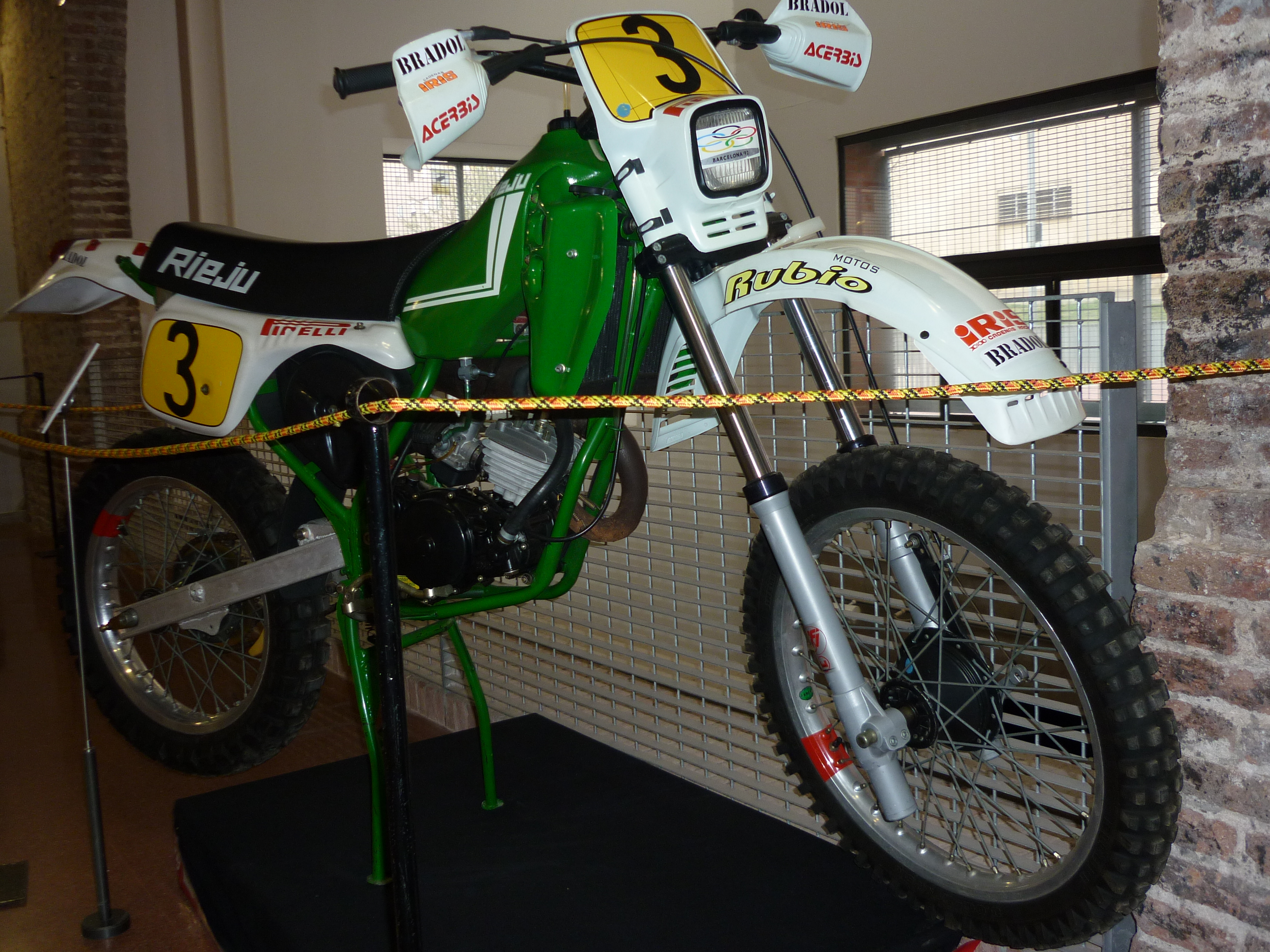 Rieju MR 80 (1985). Rieju works team motorcycle ridden by Francesc Rubio during season 1985. On this bike, Rubio won the Spanish Championship and the second place (80cc and Trophee) at ISDE'85.